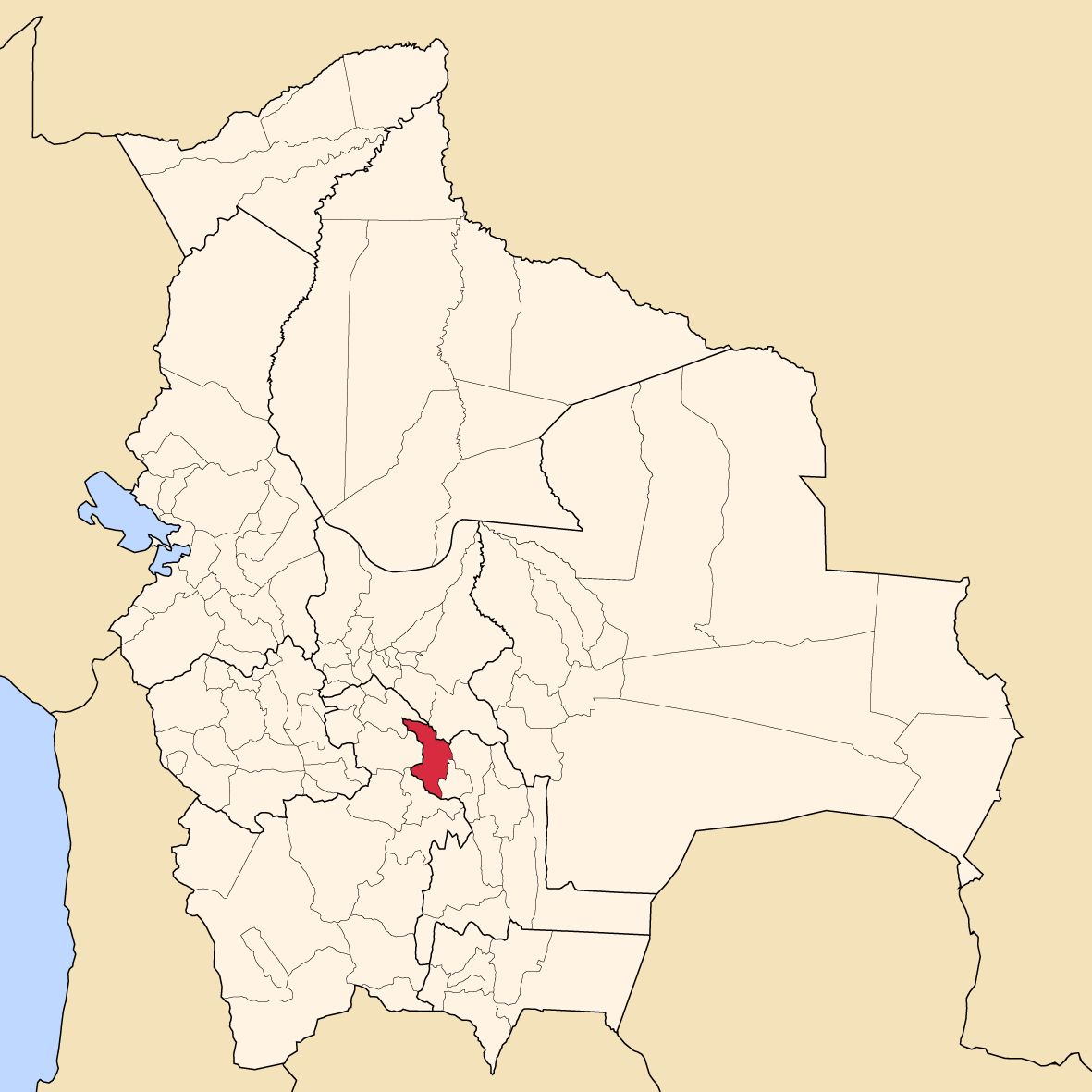 Map of Bolivia showing Oropeza province, Chuquisaca